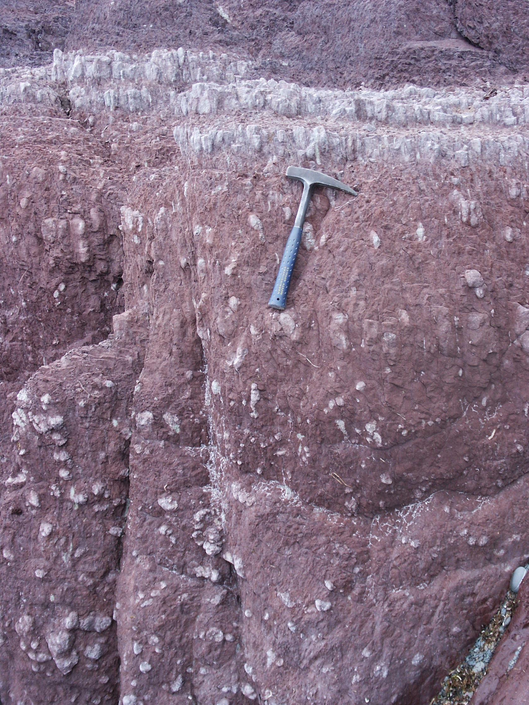 Caliche nodules in red mudrock of the Moydart Formation (Silurian) near Arisaig, Nova Scotia. Coordinates are approximate.